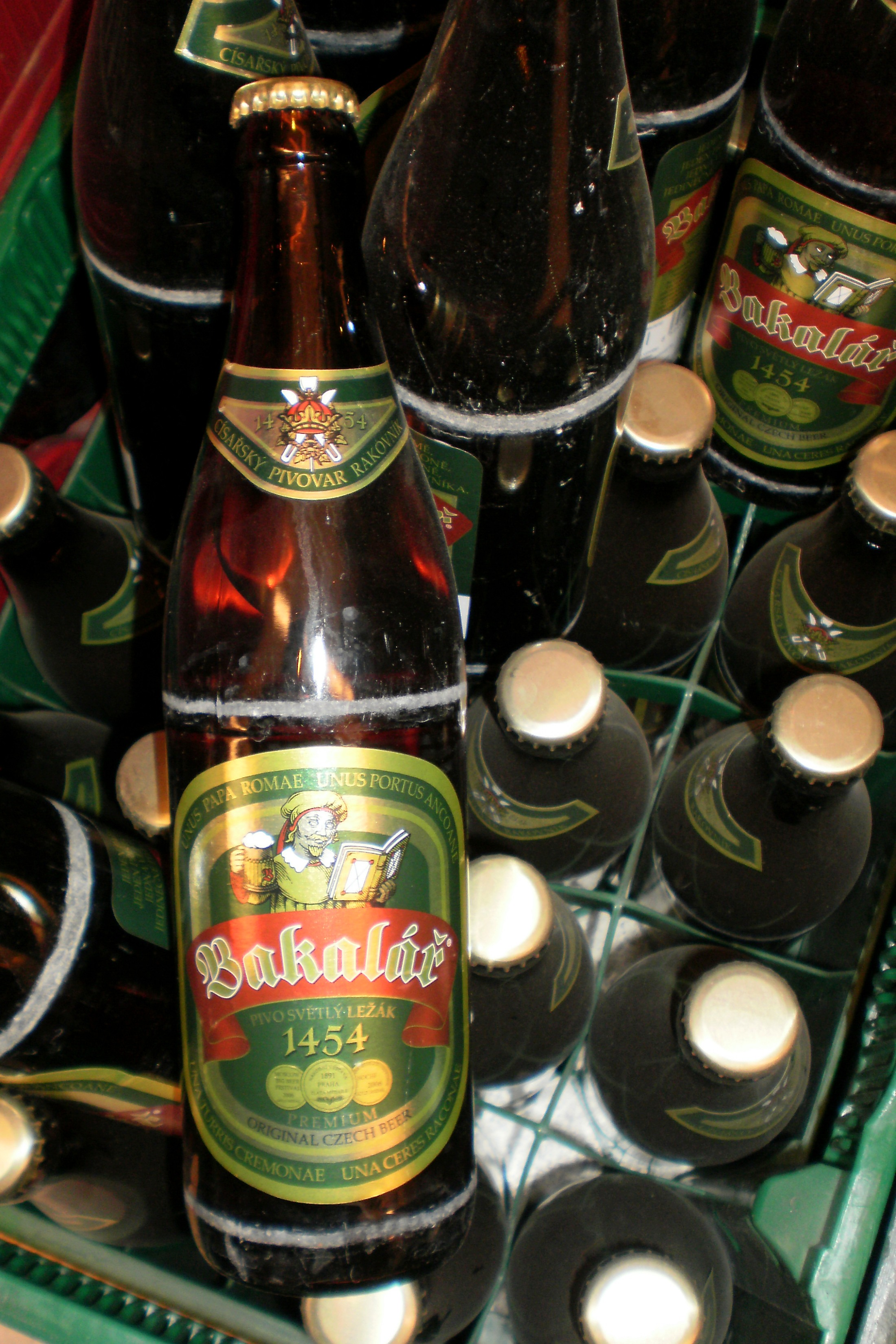 Beer - Czech Republic.